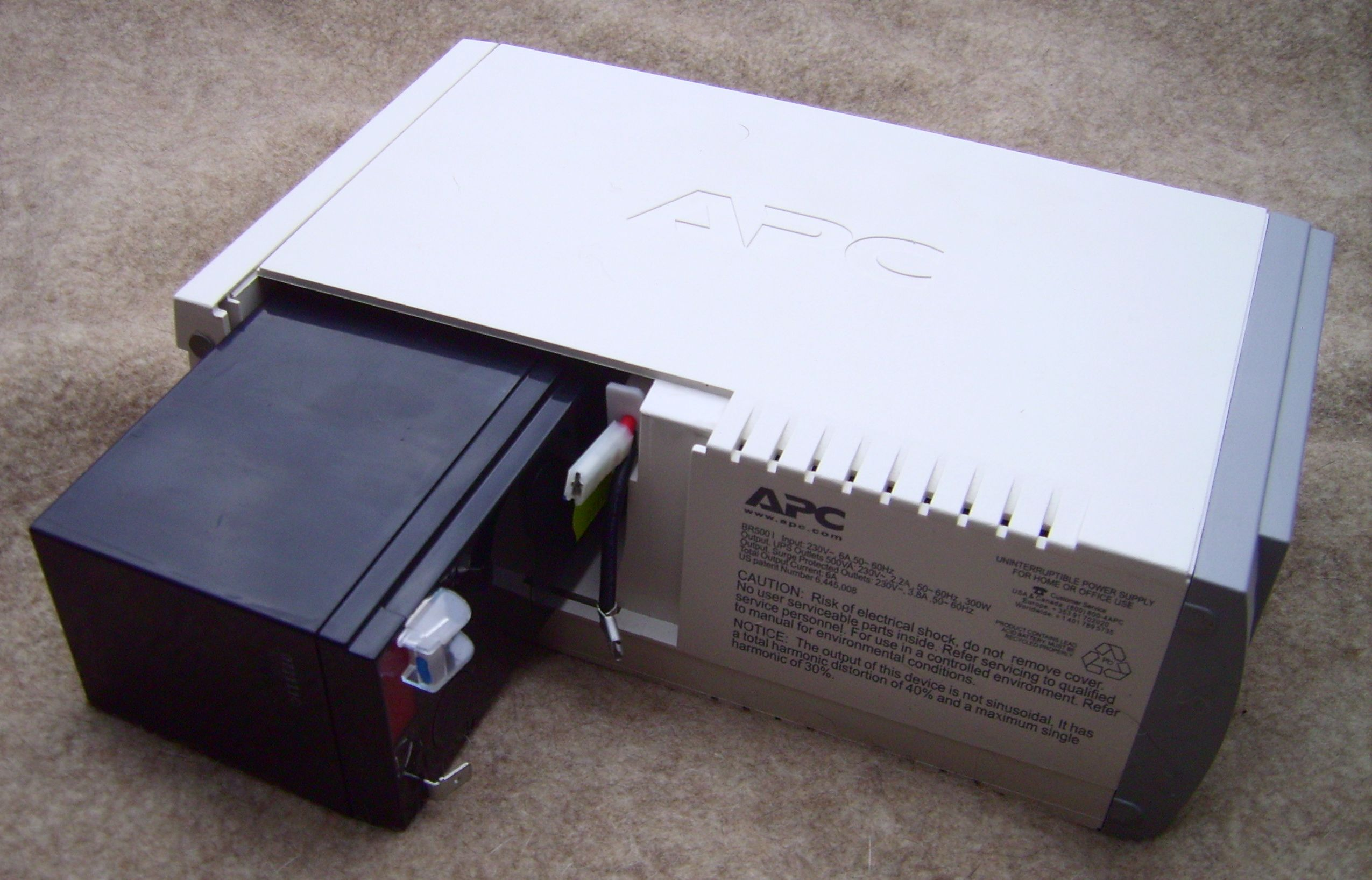 Uninterruptible power supply (UPS) by American Power Conversion (APC). Model Back-UPS RS 500. APC part number BR500I, 300 Watts / 500 VA, Input 230V / Output 230V. Control panel with LED status display On Line / On Battery / Replace Battery / Overload indicators. Alarm when on battery / distinctive low battery alarm / overload continuous tone alarm